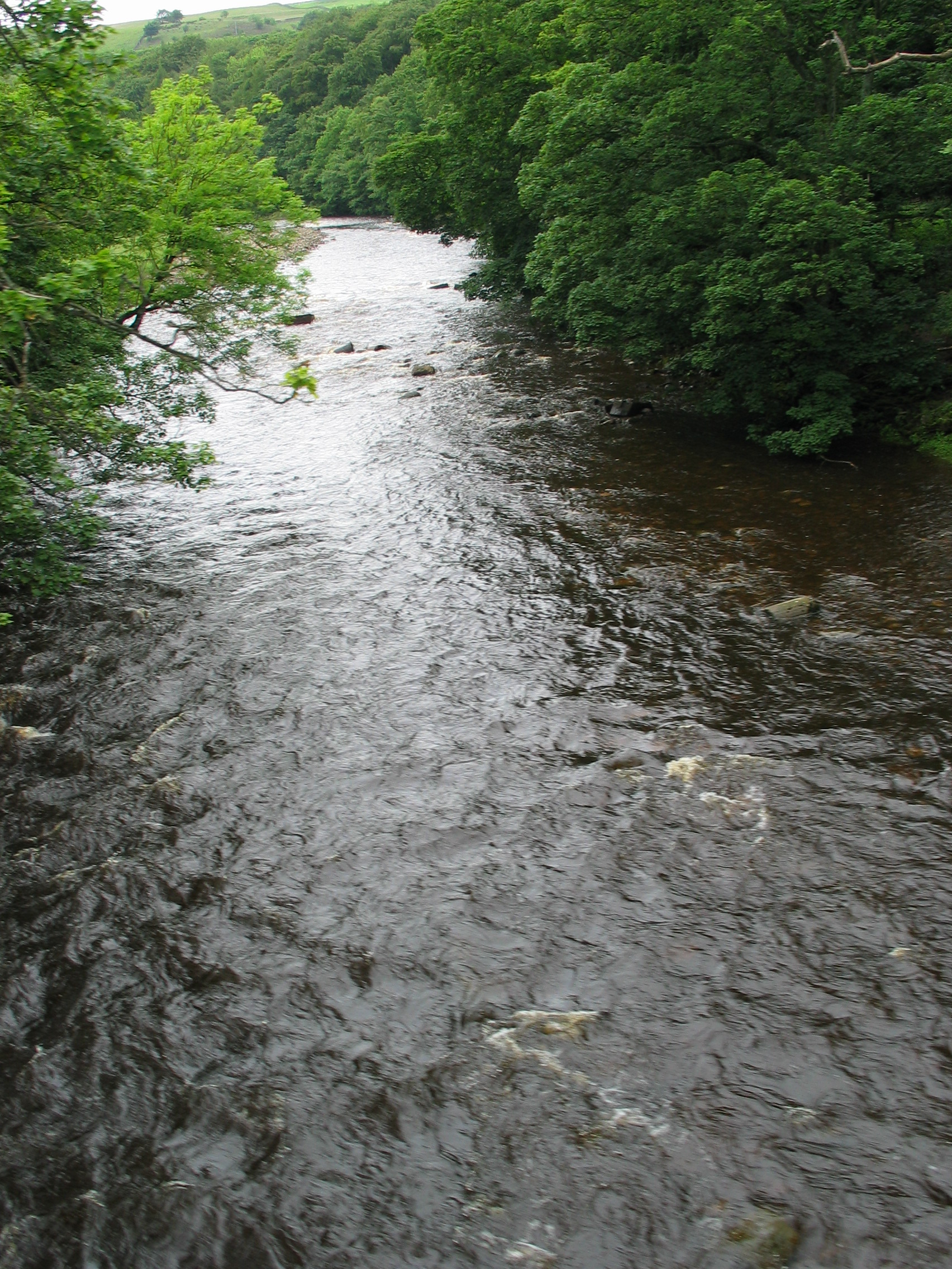 The River Wear between Frosterly and Stanhope, taken by Peter Hughes on Saturday 17 June 2007 while travelling on the Weardale Railway